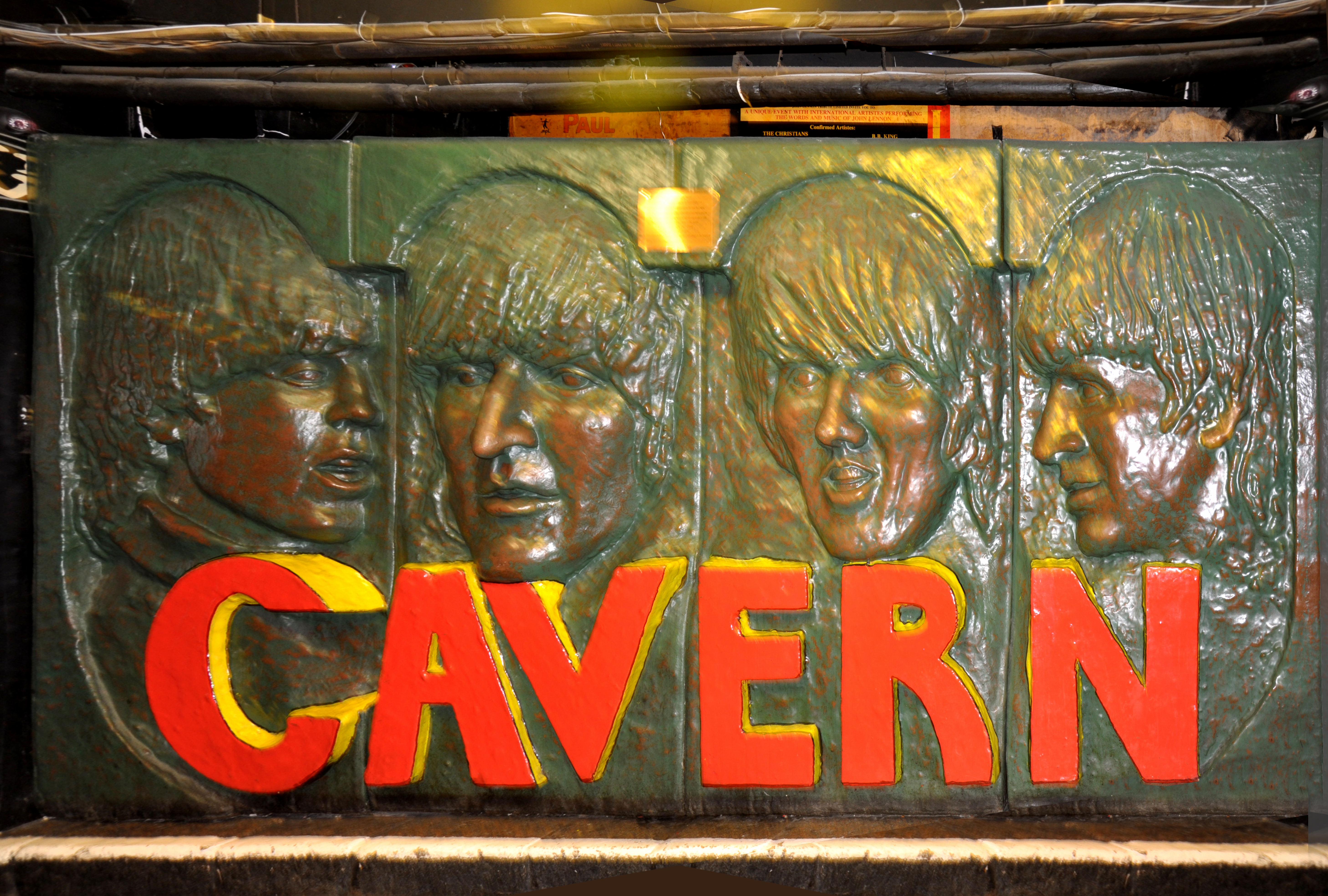 A huge Beatles relief, now exhibited on Cavern Club (as of 2010), seems originally an exhibit of the Cavern Mecca Beatles Museum in early 1980s. References Philip Battle. "The other side of the coin…..A tribute to John Lennon and an interview with Jim Hughes (Manager of the Cavern Mecca and organiser of John Lennon Statue Appeal Fund)". BREAKOUT (6): 22–23. — see relief on photograph of Cavern Mecca Beatles Museum c.1981.